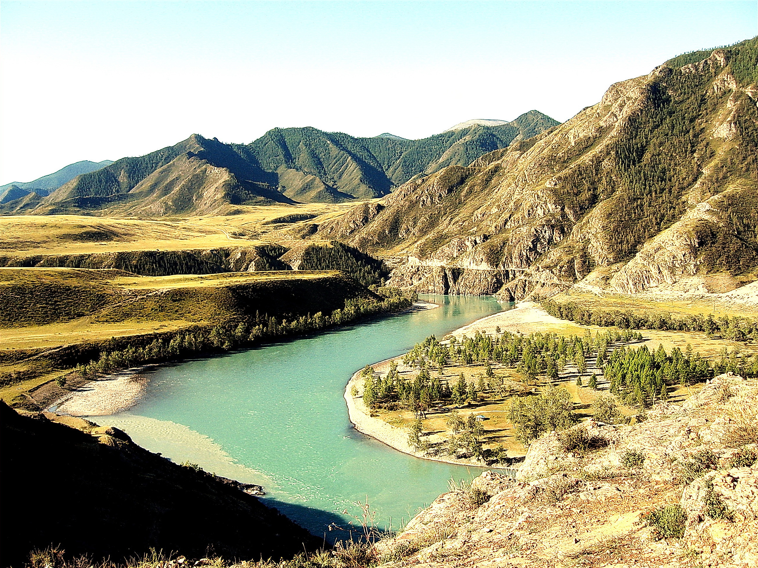 Diluvial terrasses, Altai